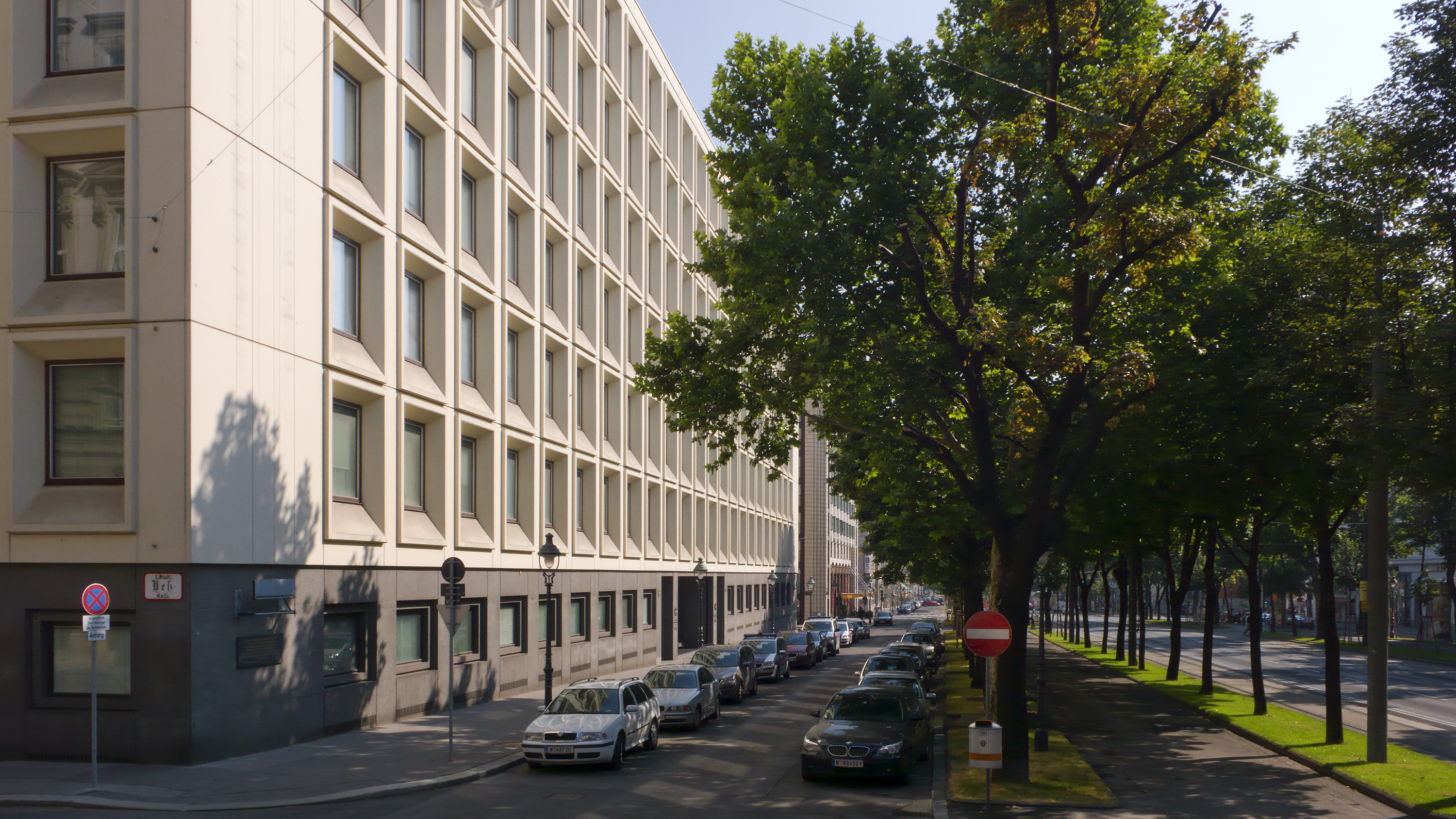 Police headquarters Polizeidirektion Wien (Schottenring 7–9) in Vienna Innere Stadt